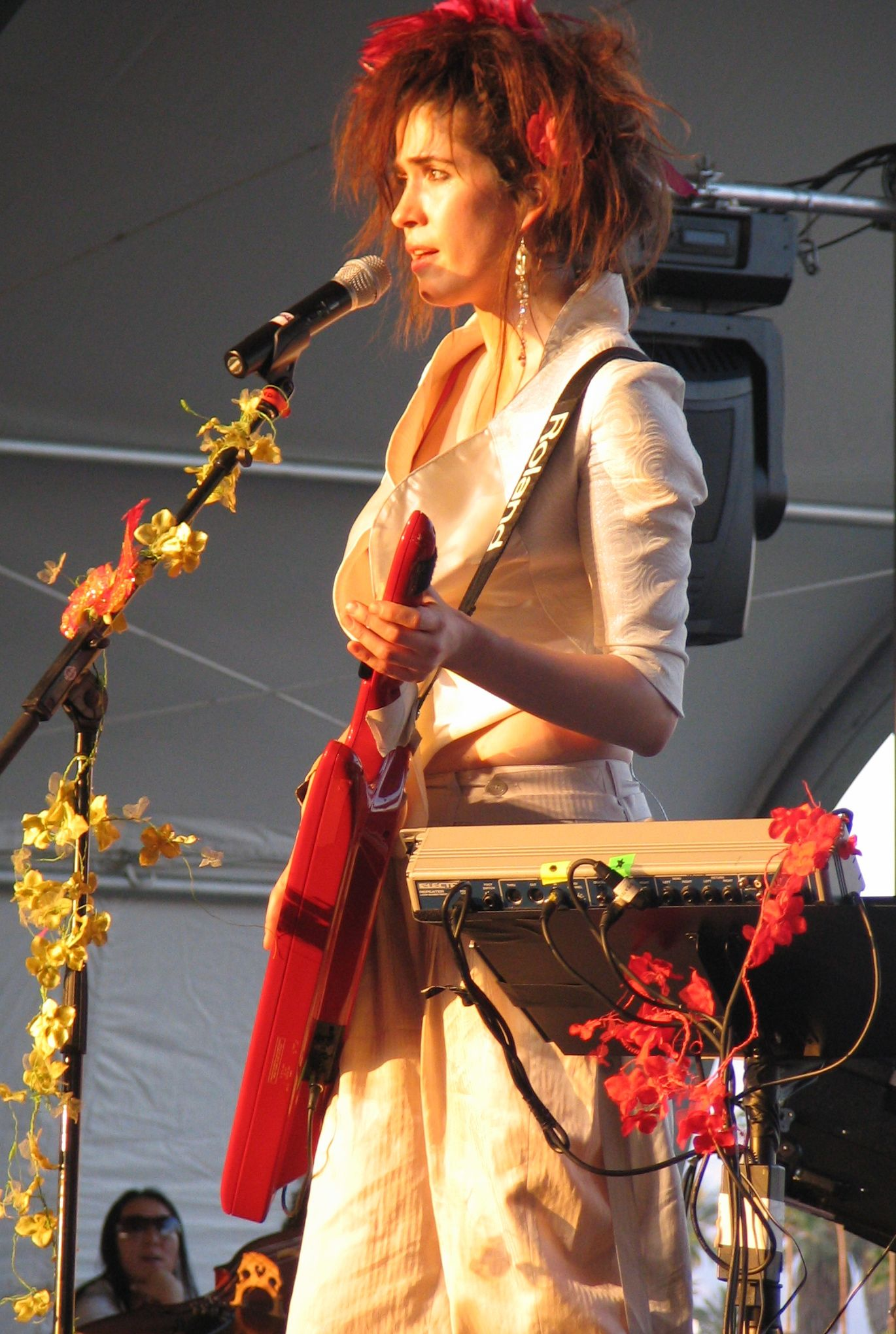 Imogen Heap at the 2006 Coachella Valley Music and Arts Festival